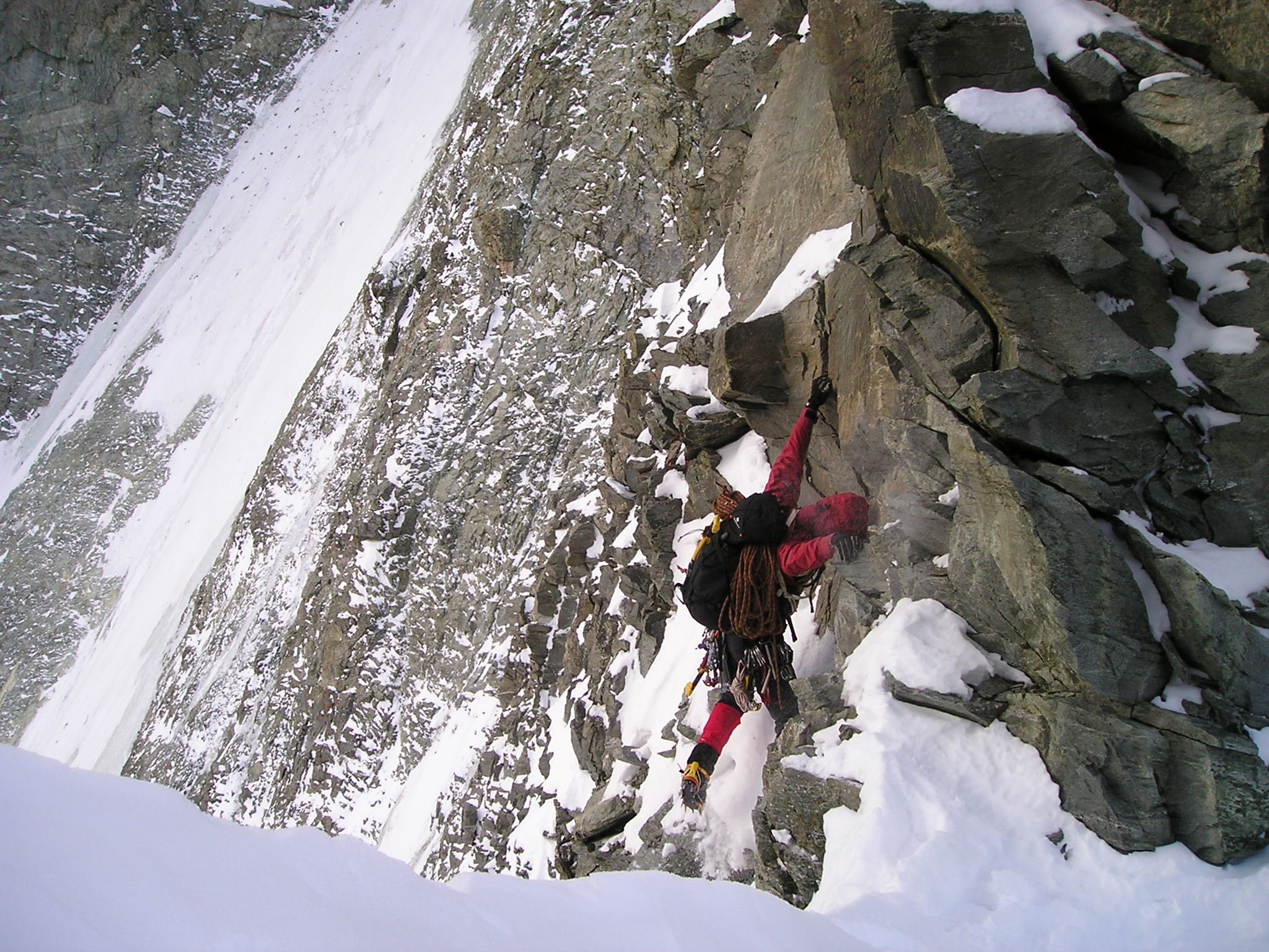 Zmutt ridge and north face of the Matterhorn (left). It should be near the p. 3895 m at the end of the snowy ridge.